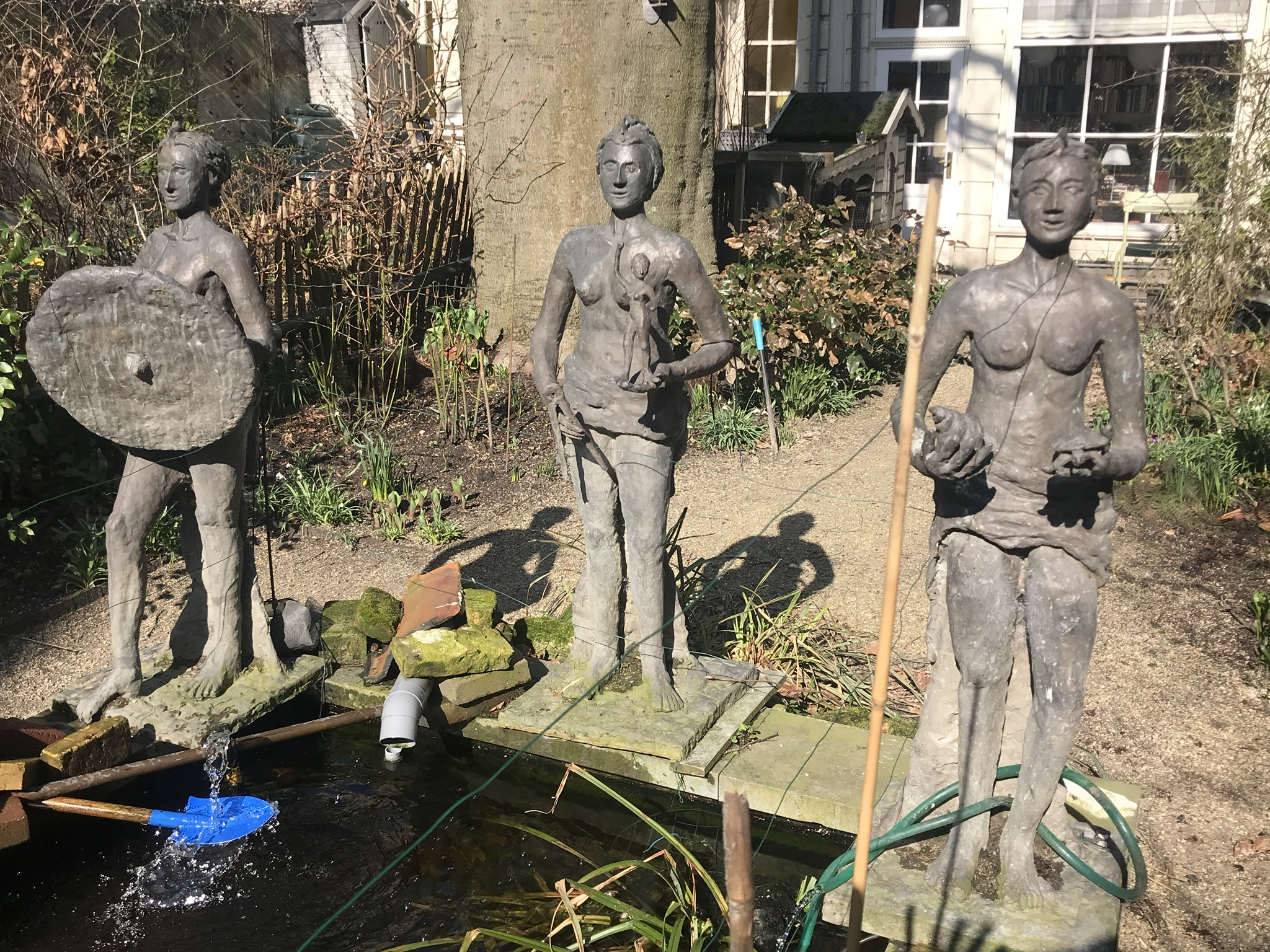 utilitas, firmitas and venustas (utility, strength and beauty)